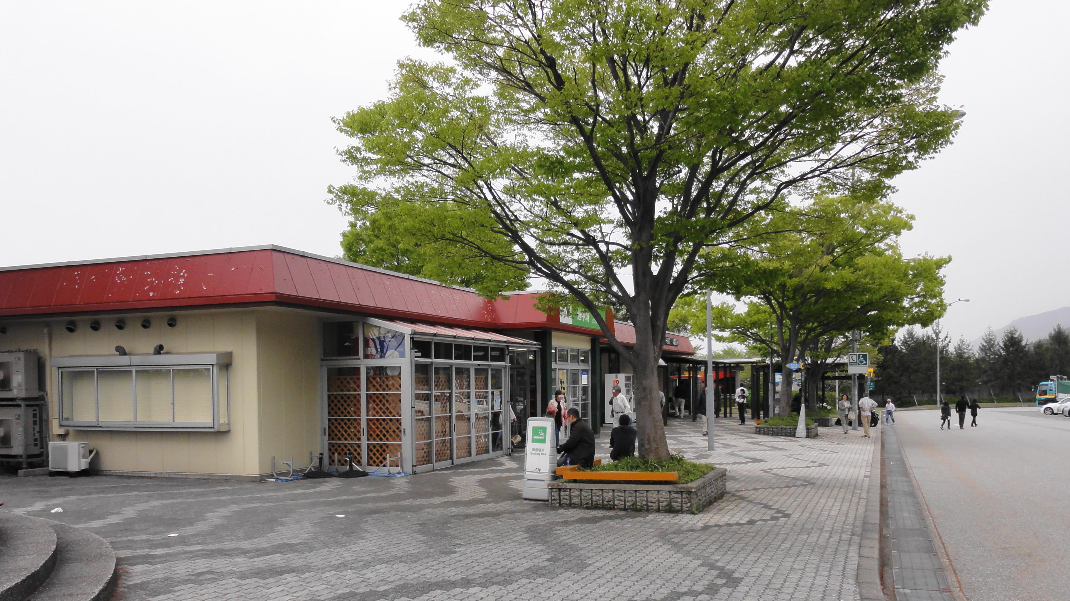 Etchū-Sakai Parking Area, Toyama prefecture, Japan